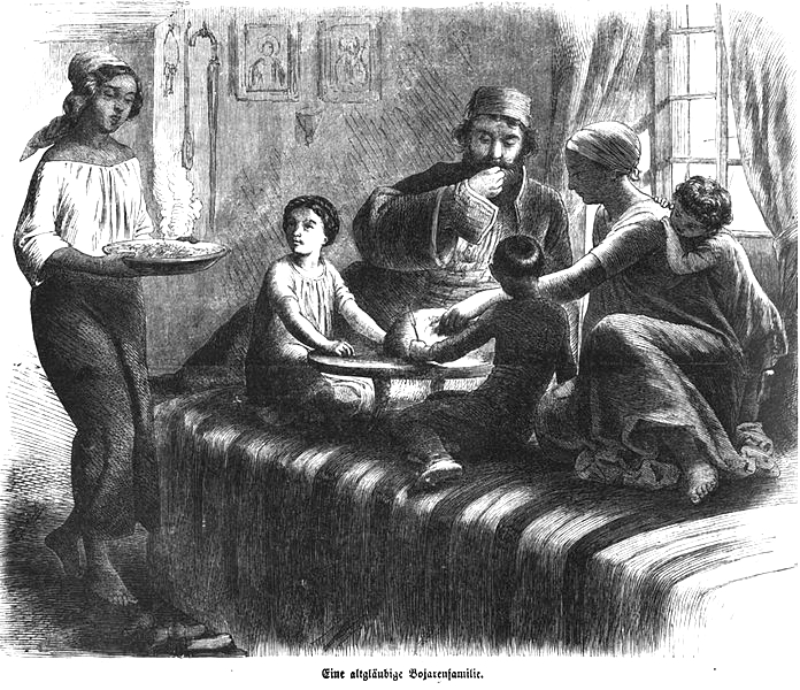 no caption